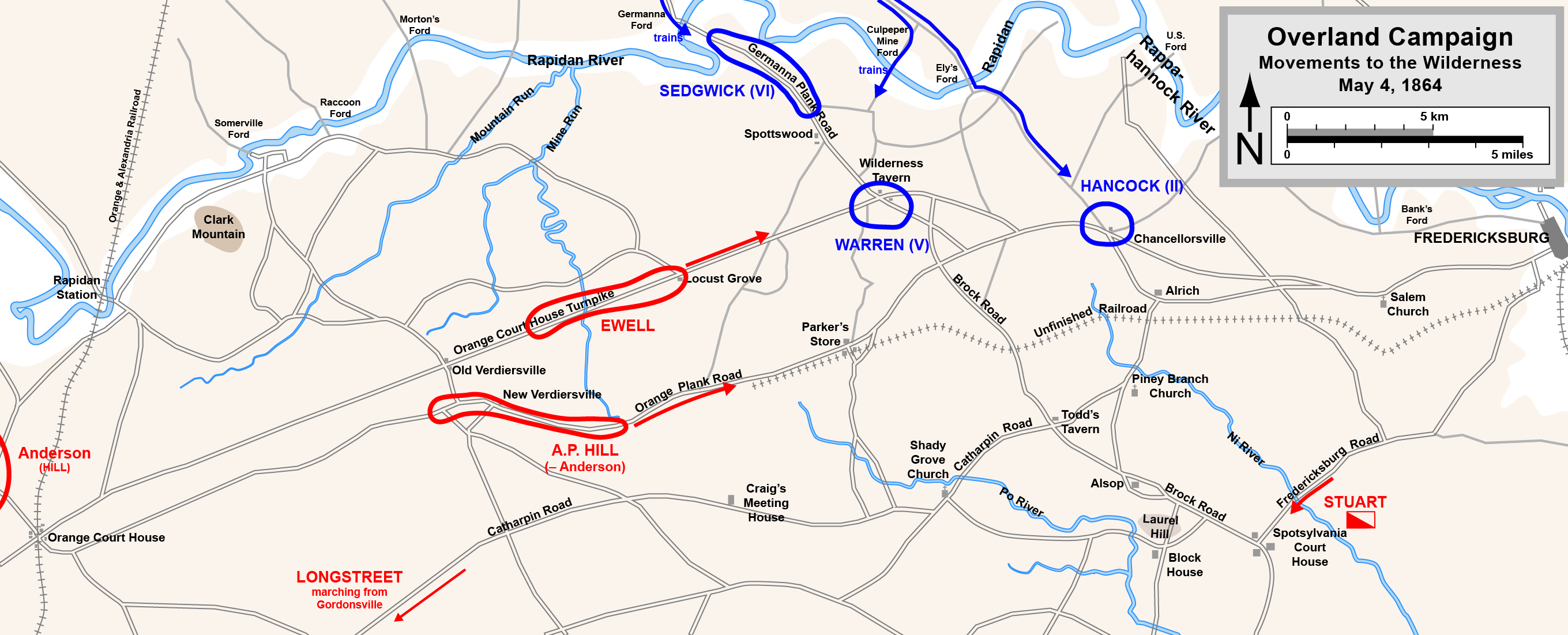 Map of the opening movements of the Overland Campaign (movement into the Wilderness) of the American Civil War. Drawn in Adobe Illustrator CS5 by Hal Jespersen. Graphic source file is available at Attribution: Map by Hal Jespersen